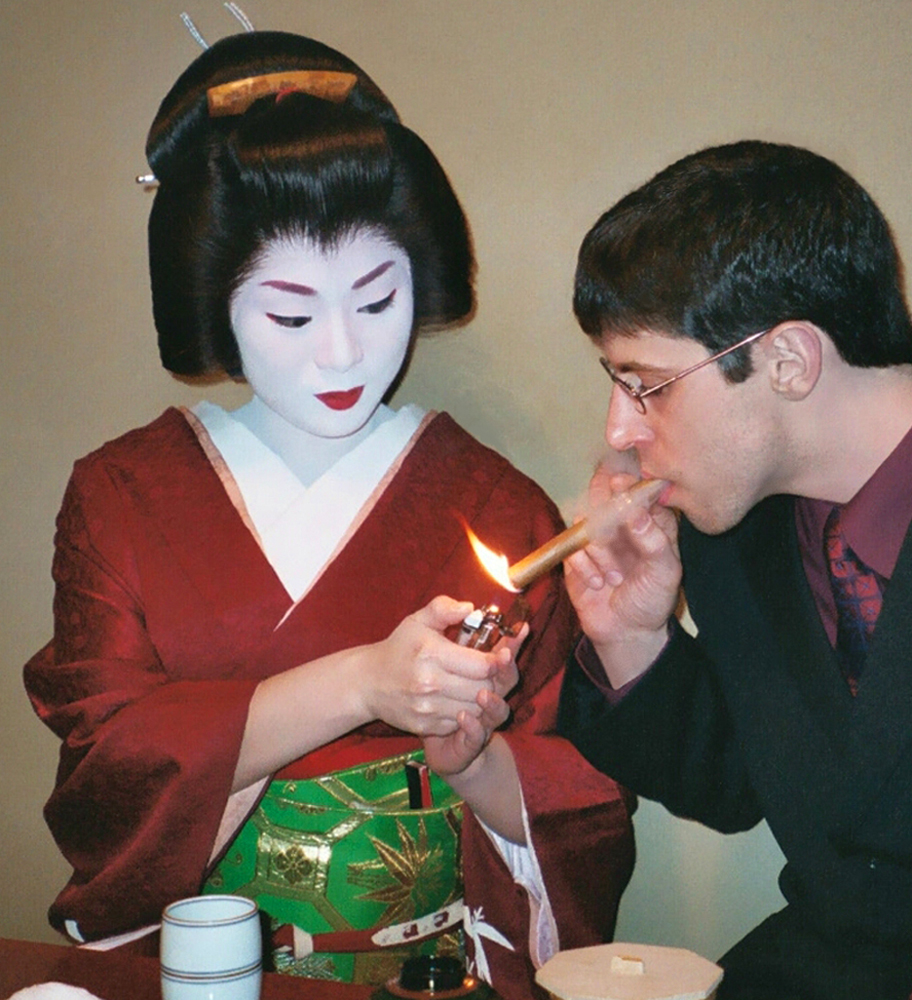 This photograph of a geisha at work in Gion was taken by the original author with the geisha's permission.